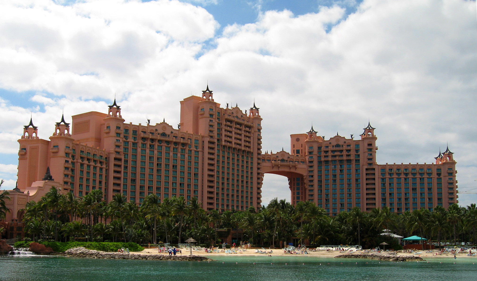 Full view of the hotel on Atlantis Paradise Island.